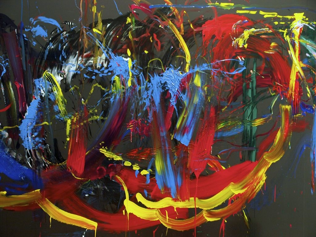 Painted during a Performance/Intervention in the Upper Galleries at Modern Art Oxford.